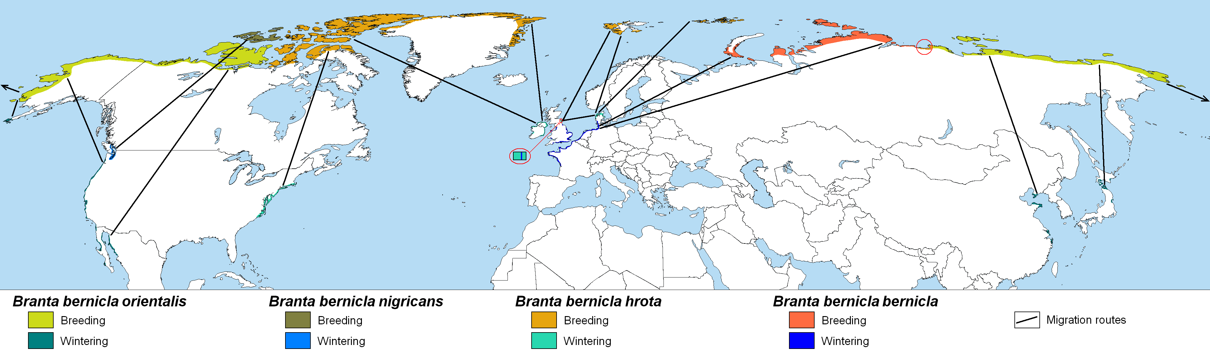 Distribution map of Branta bernicla. Notes: Intergrade / mixed-subspecies zones are marked by vertical hatching, ringed in red. Additionally, small numbers of any subspecies may occur as vagrants anywhere in the ranges of any other subspecies, or outside of normal wintering areas. Sources: Several regional field guides. Syroechkovski, E. E., Zöckler, C. & Lappo, E. (1998). Status of Brent Goose in northwestern Yakutia, East Siberia. Brit. Birds 91: 565-572 pdf. Moores, N. (2012). A Wild Goose Chase through the Literature. Birds Korea. Reed, A., Ward, D. H., Derksen, D. V., & Sedinger, J. S. (2013). Brant Branta bernicla Systematics (archived) at The Birds of North America Online.